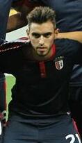 SHAKHTAR DONETSK VS. SPORTING BRAGA 2 - 0